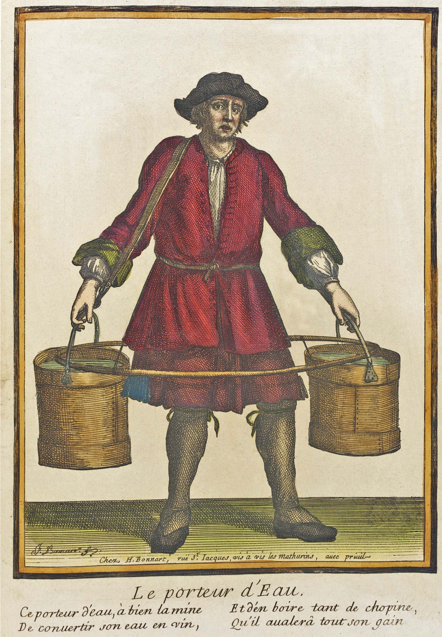 The water carrier in the court of France in 1675. Recueil des modes de la cour de France, 'Le Porteur d'Eau'